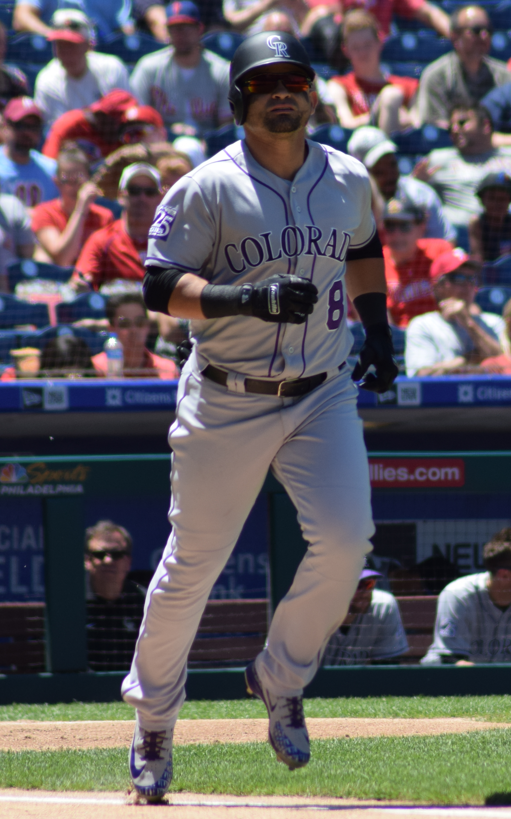 Gerardo Parra with the Colorado Rockies during a 2018 game at Citizens Bank Park in Philadelphia